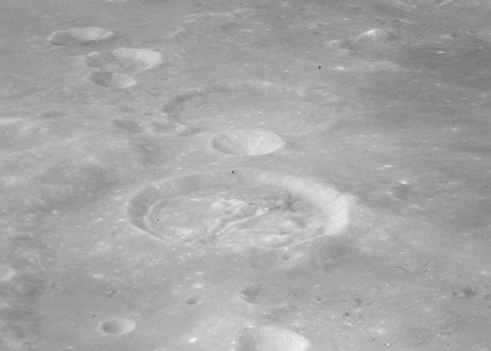 Oblique view of Bohnenberger crater (below center), on the moon, facing south. Satellite craters A and G are above center, and W, C, and P are in upper left.